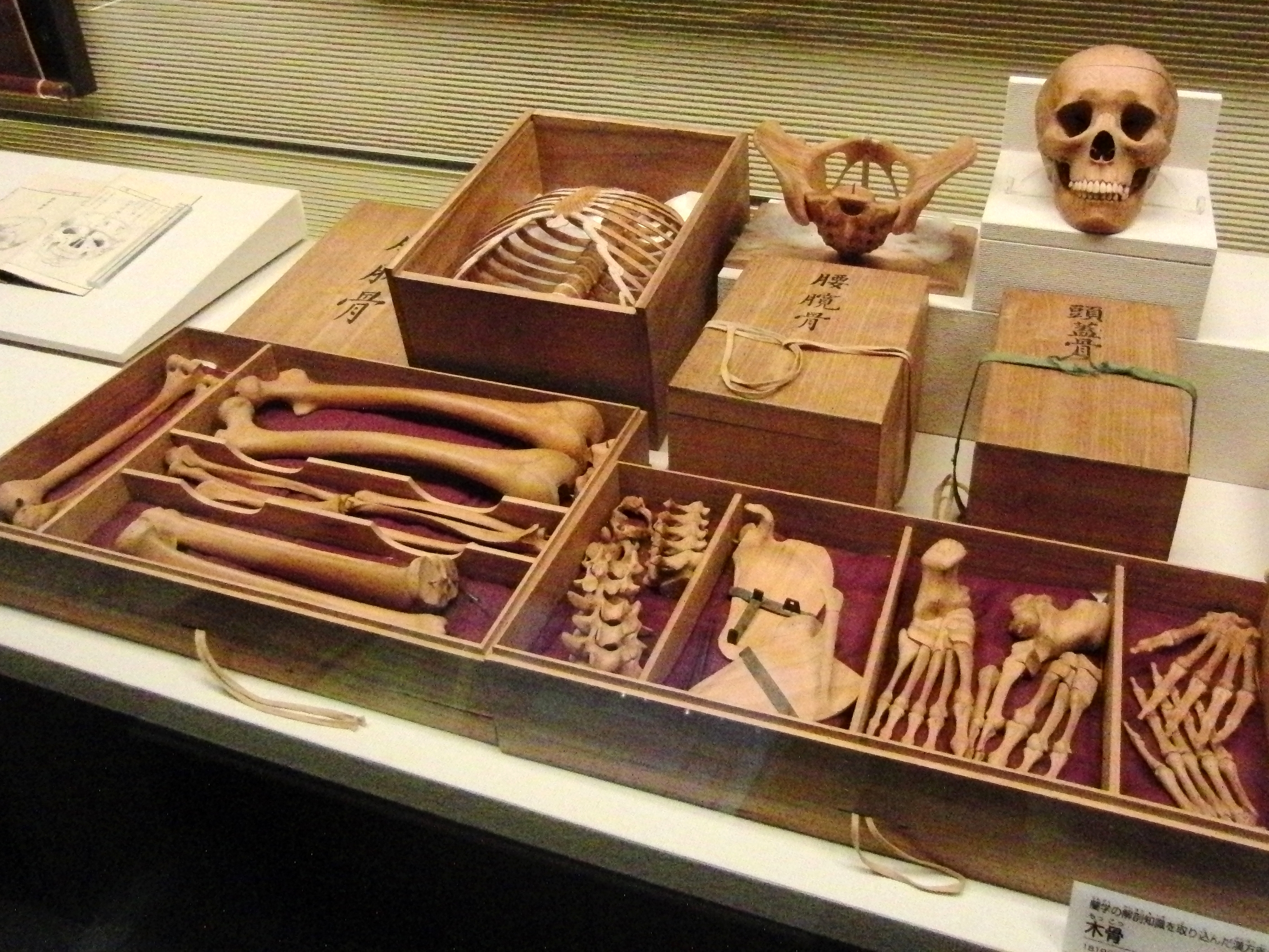 Wooden human skeleton named "Okuda Mokkotsu". Carved for medical education in the Edo period. Exhibit in the National Museum of Nature and Science, Tokyo, Japan.